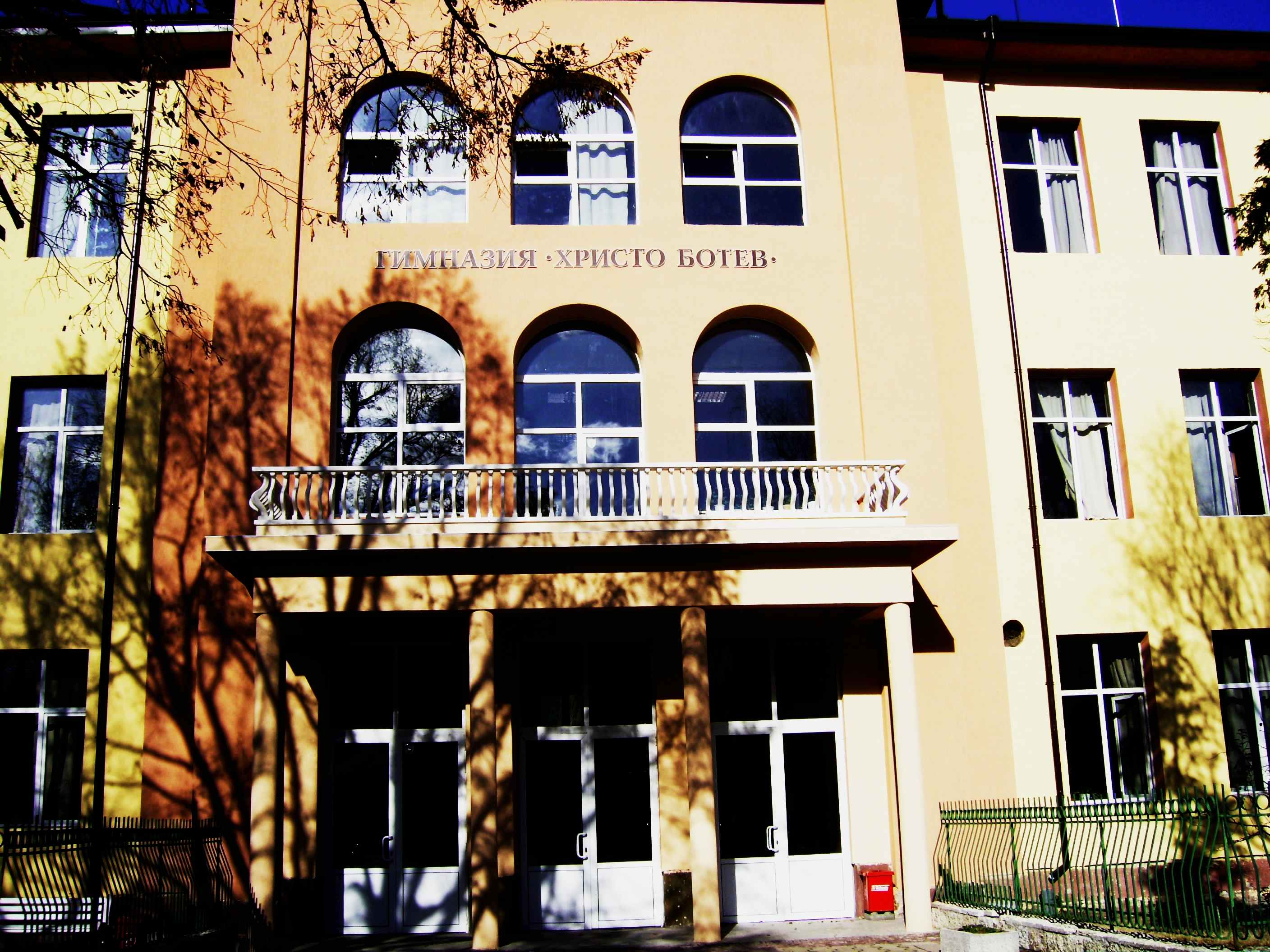 saas